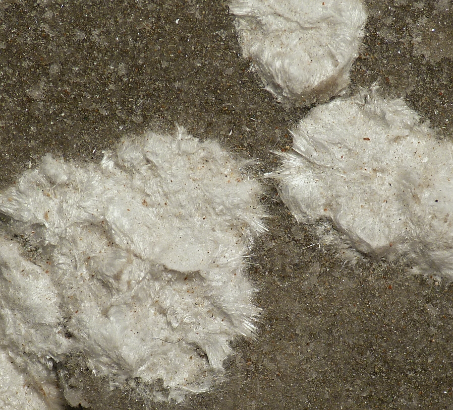 Ulexite, Anhydrite Locality: Gypsum quarry, Appenrode, Ellrich, Harz, Thuringia, Germany White fibrous ulexite on massive anhydrite. Field of view 2.5 cm.